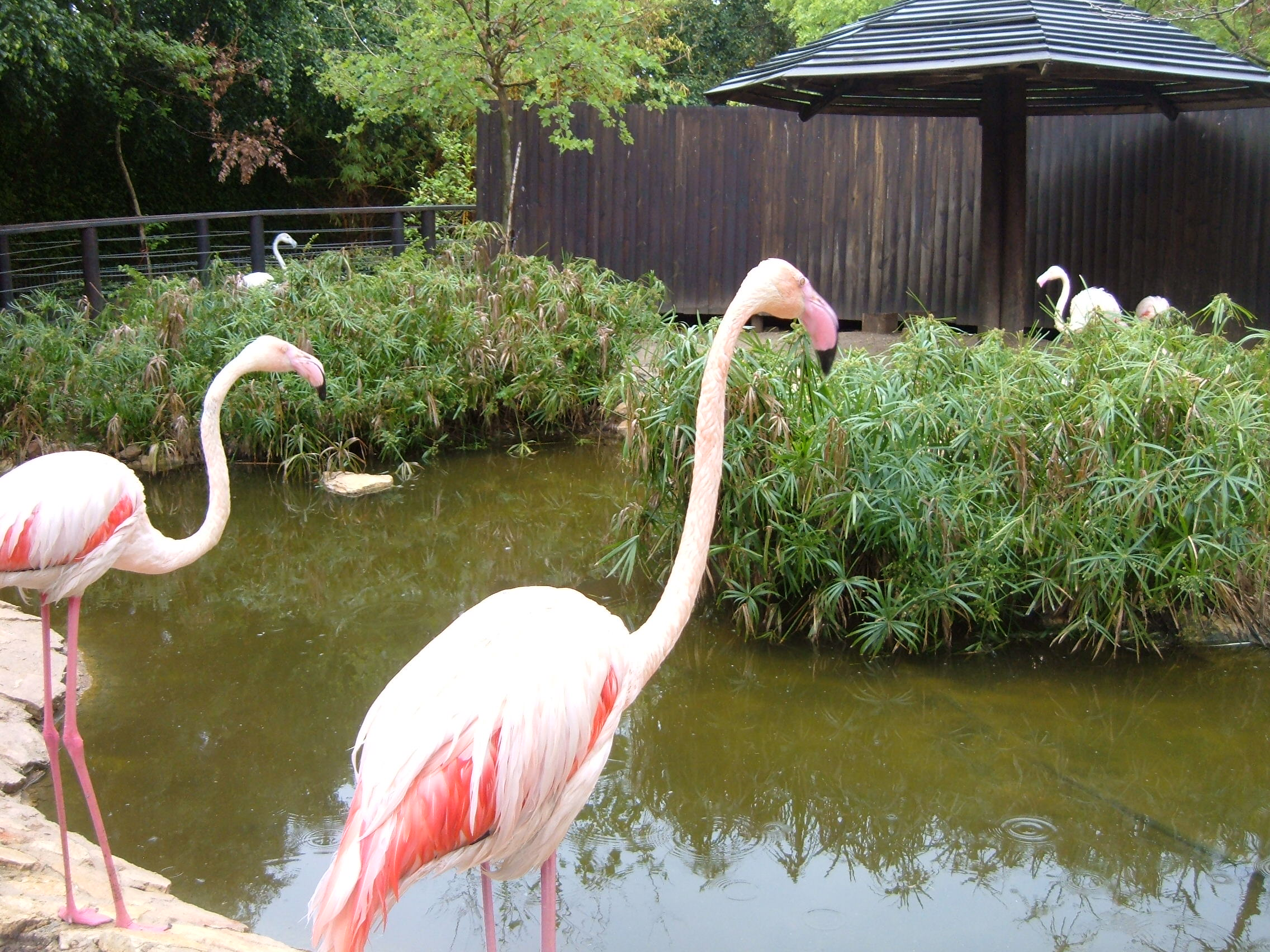 Wildlife and Plants of Israel